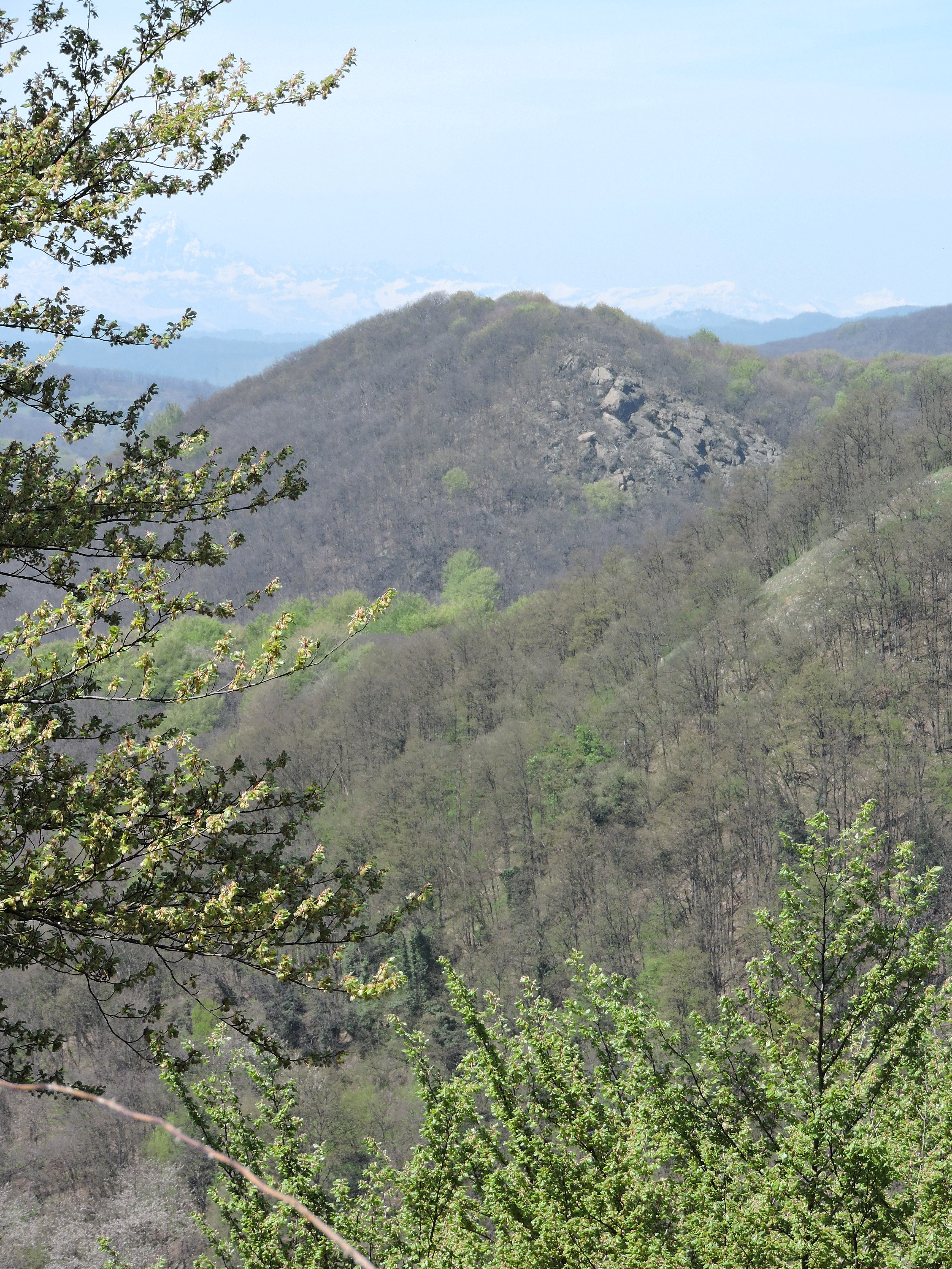 Rocca dell'Adelasia (SV, Italy) as seen from provincial road nr.12 Altare-Montenotte